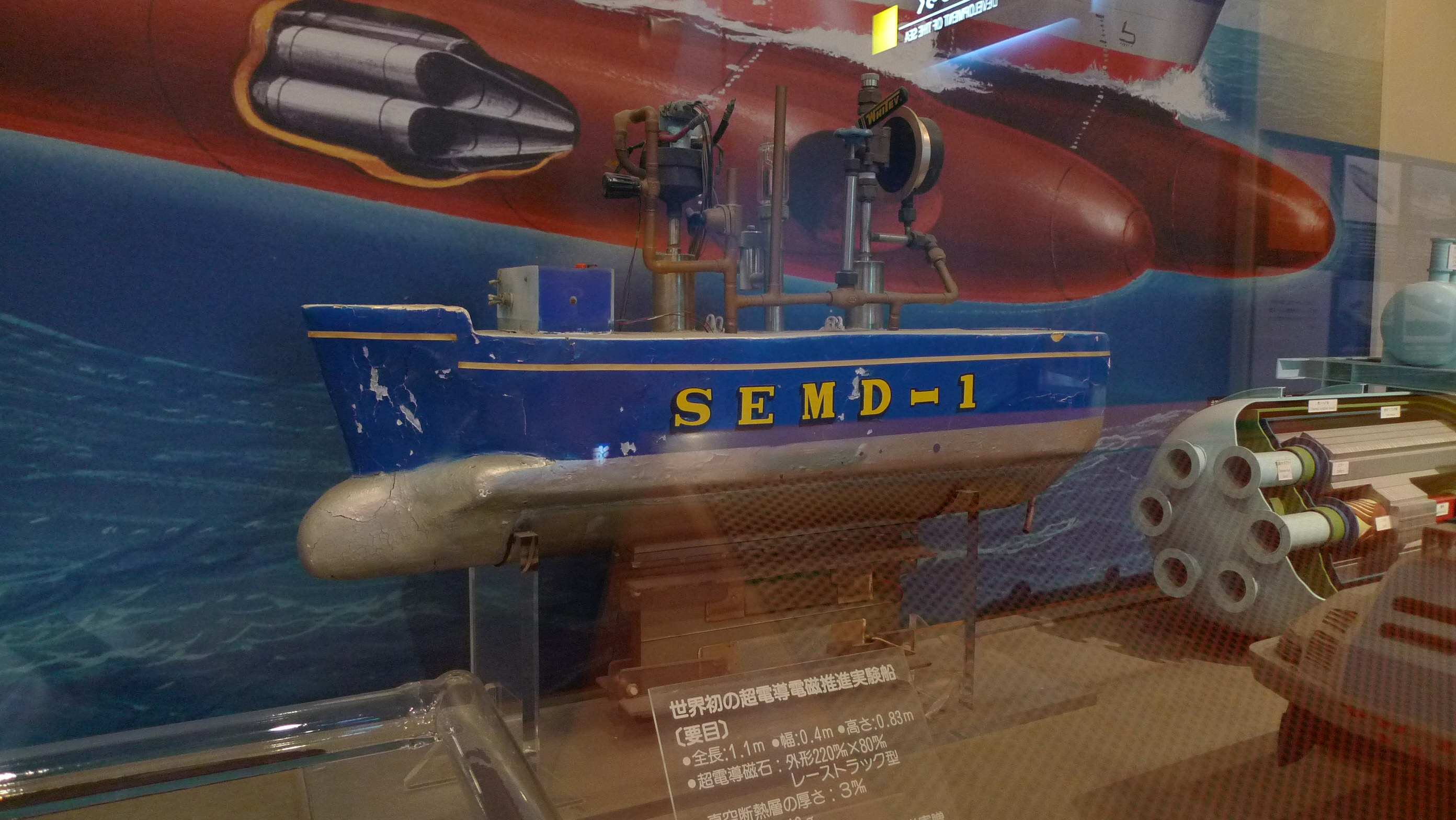 World 1st superconducting electro-magnegic propulsion model ship SEMD-1 developed in 1976.